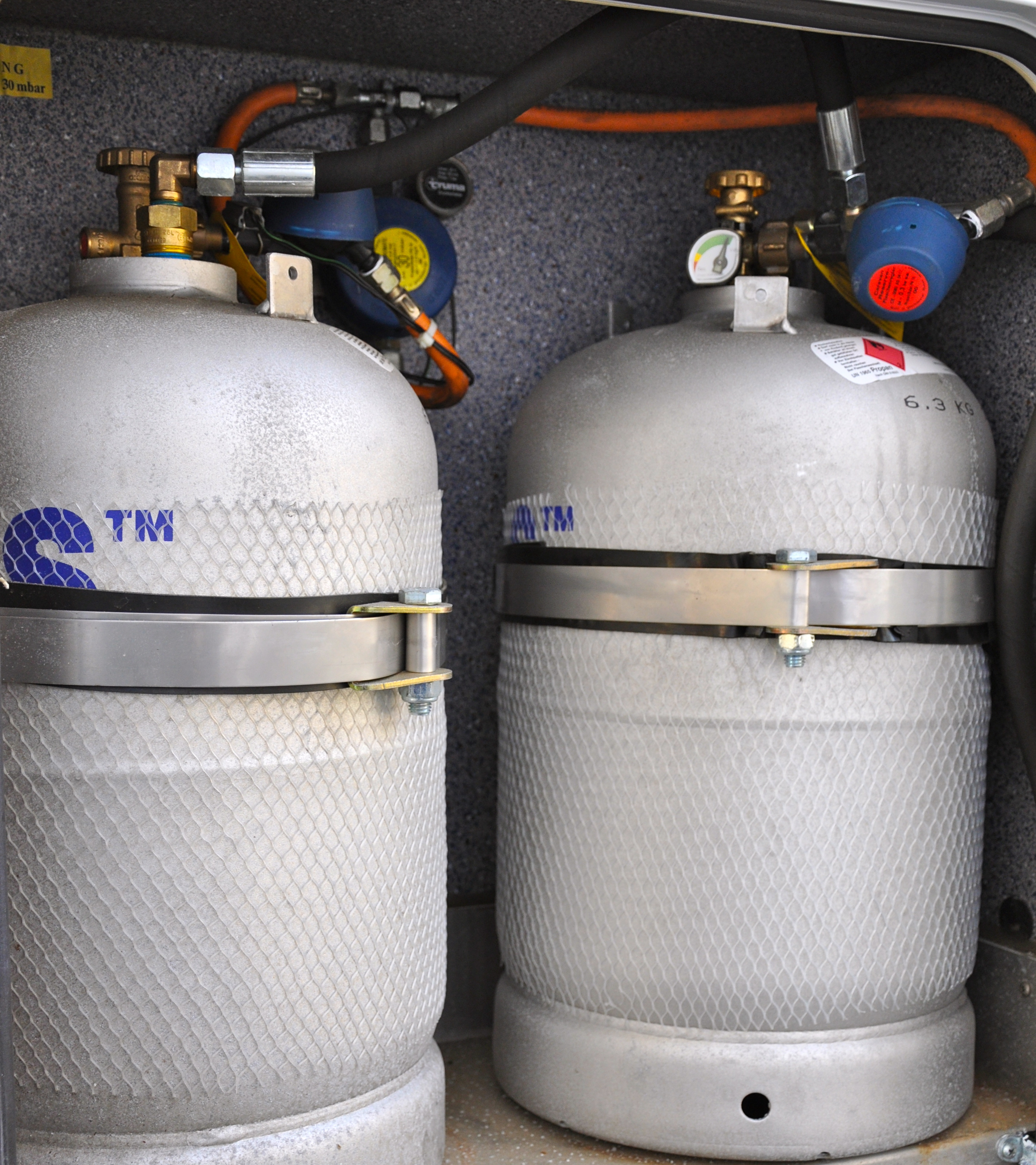 LPG tanks fitted in a camping car